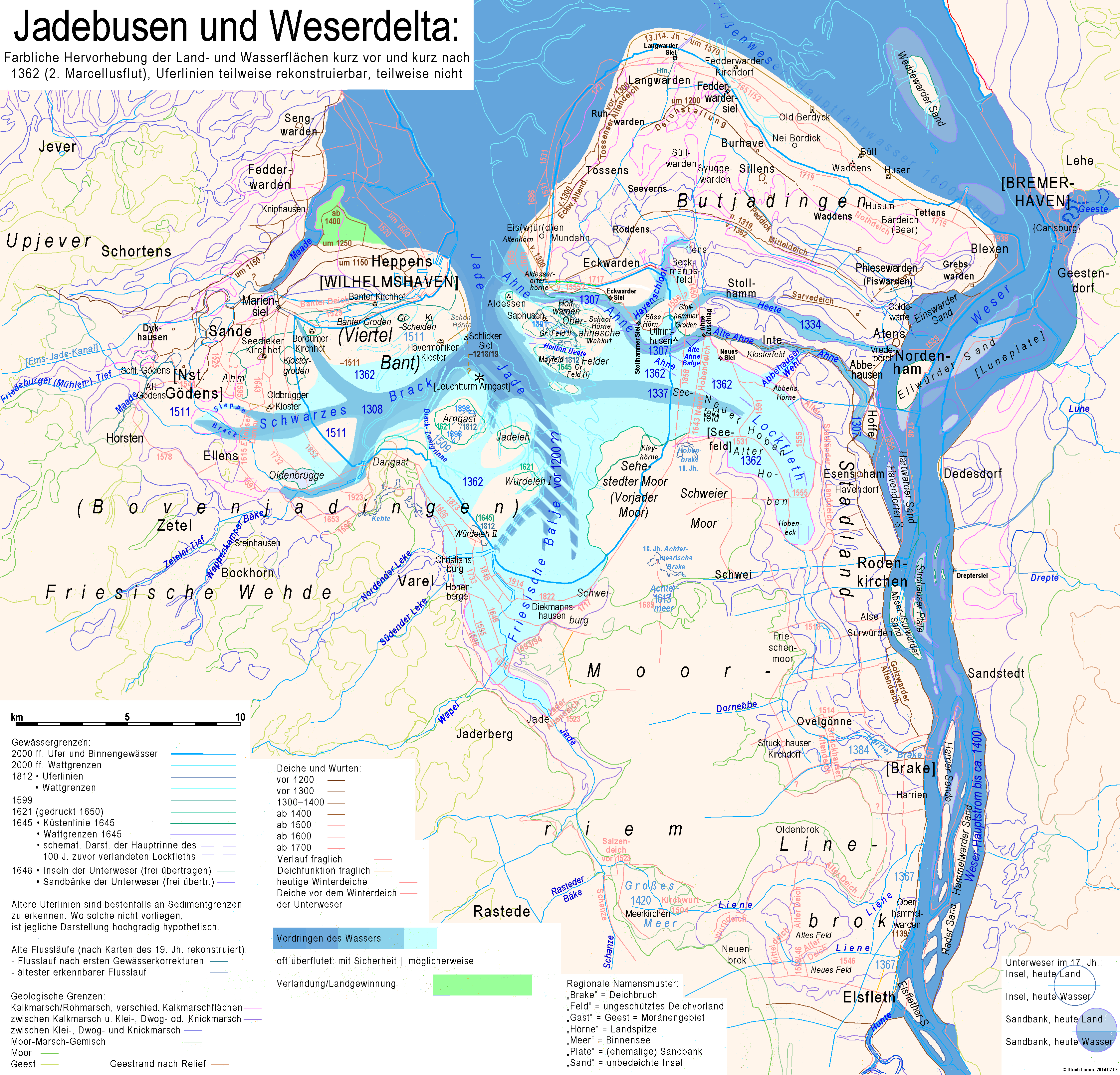 Development of the Jadebusen (Jade Bight) and the interim delta of Weser river • blue areas = advancement of waterbodies • green areas = growth of land • brown to red lines = dikes • bold intensive light blue line = today's coastline • light blue lines = today's forshore limit • bold light blue lines = forshore limit c. 1810 • dirty lilac lines = foreshore limit c. 1645 • light pink to light lilac, ocre and light green lines = geological soil borders. Areal colours are uesd almost only for new won land. Regaining of losses generally is marked only by the dikes. Different from the basic version, in this map the situations shot before and short after Second Marcellus Flood from 1362 are emphasized.